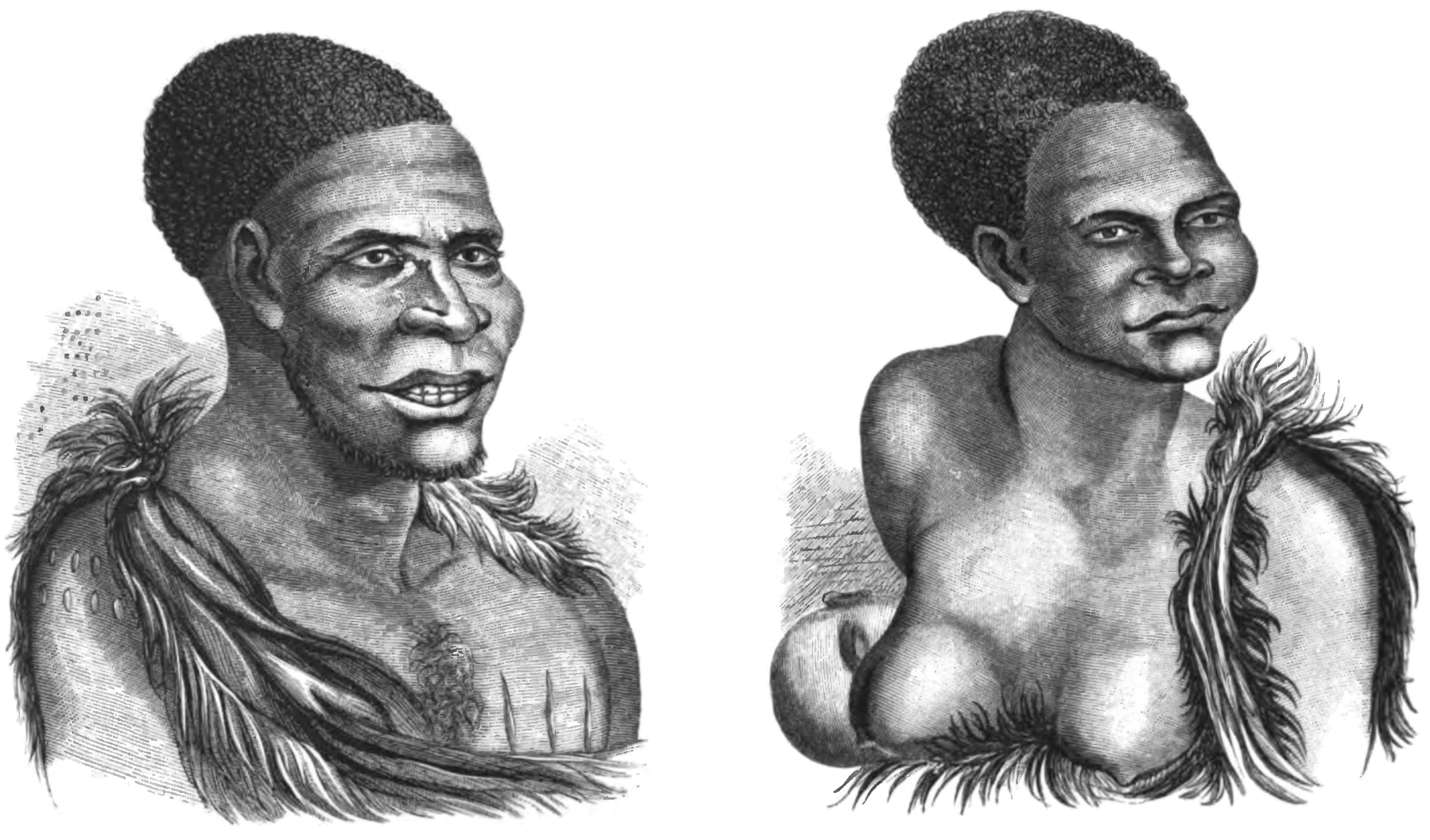 Tasmanian man and women